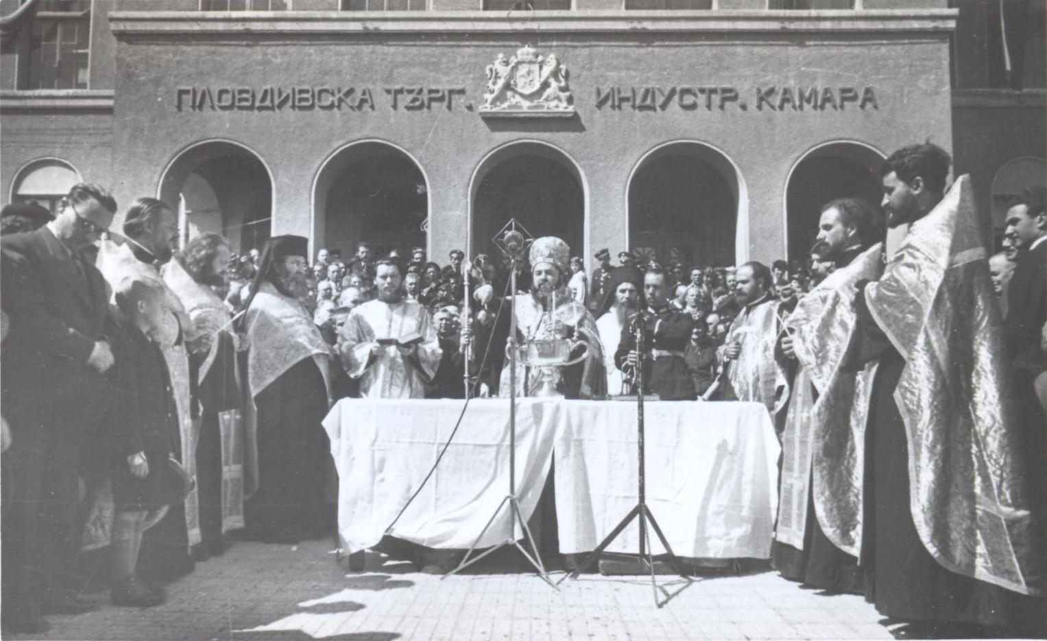 Opening of 1939 Plovdiv Fair by Metropolitan of Plovdiv Cyril, future patriarch of Bulgaria